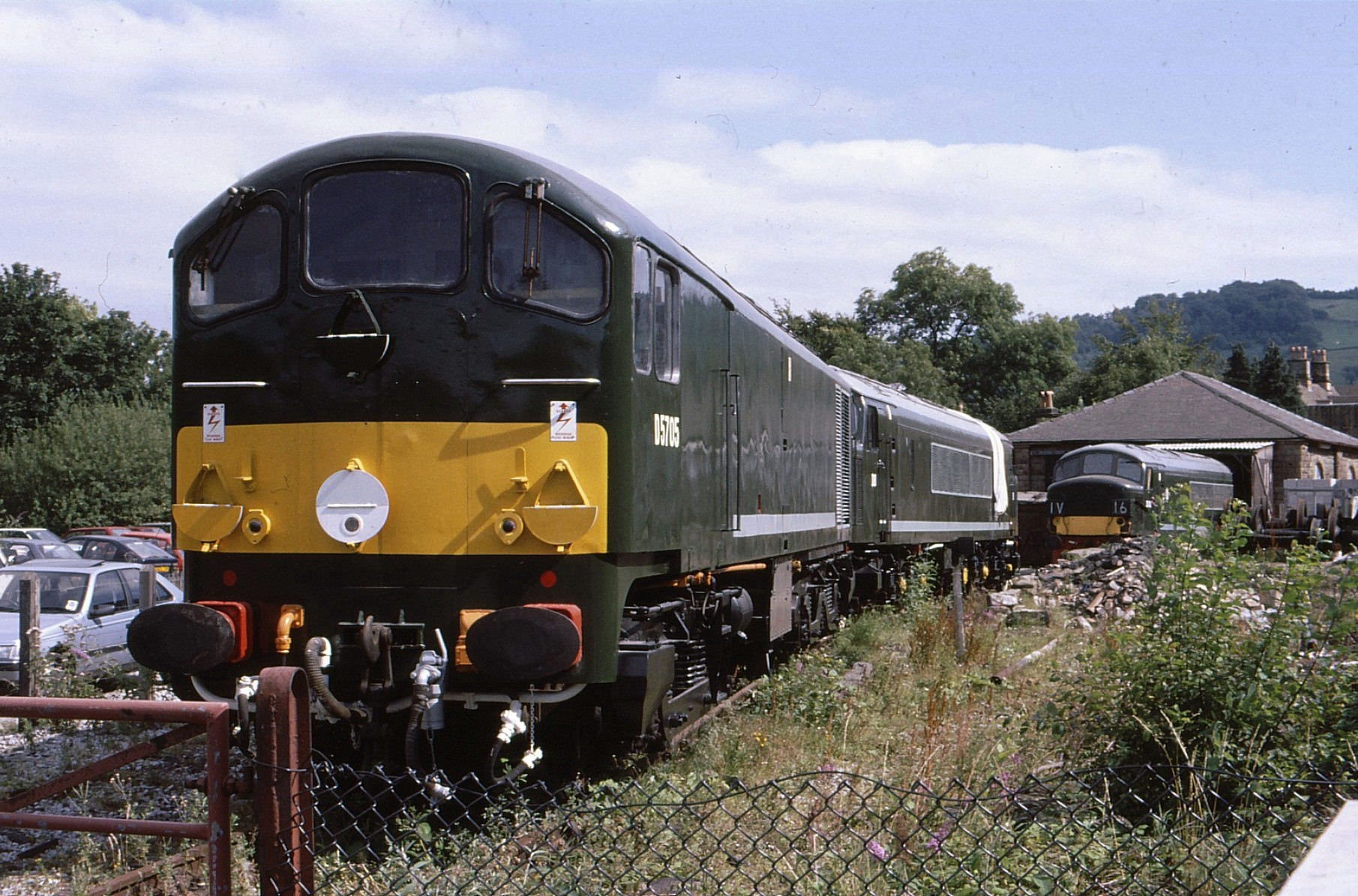 Metrovick Co-Bo D5705 at Matlock . The early days of Peak Rail Probably the ugliest diesel loco ever produced but that Crossley 2 stroke engine did sound nice.